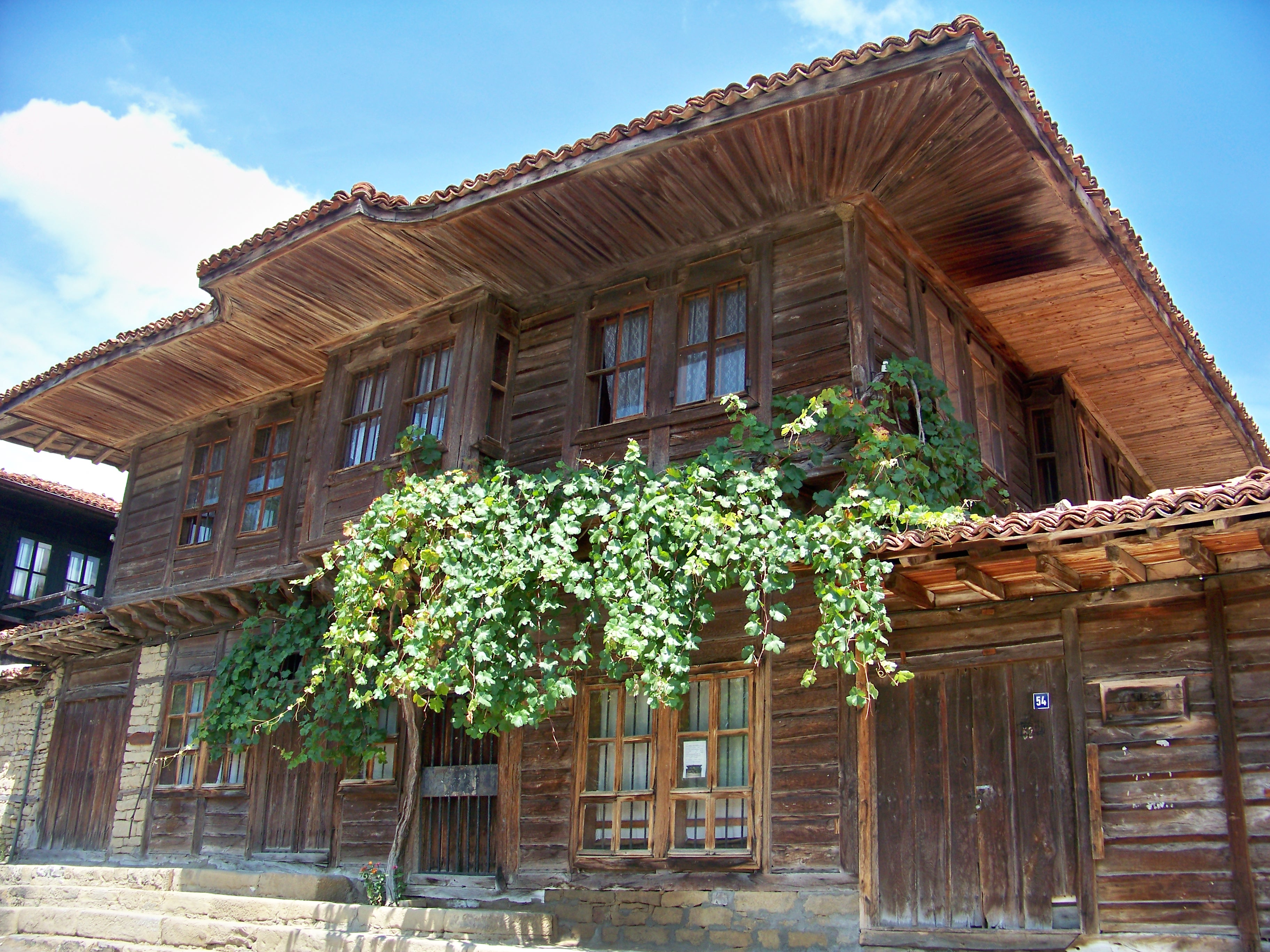 Zheravna